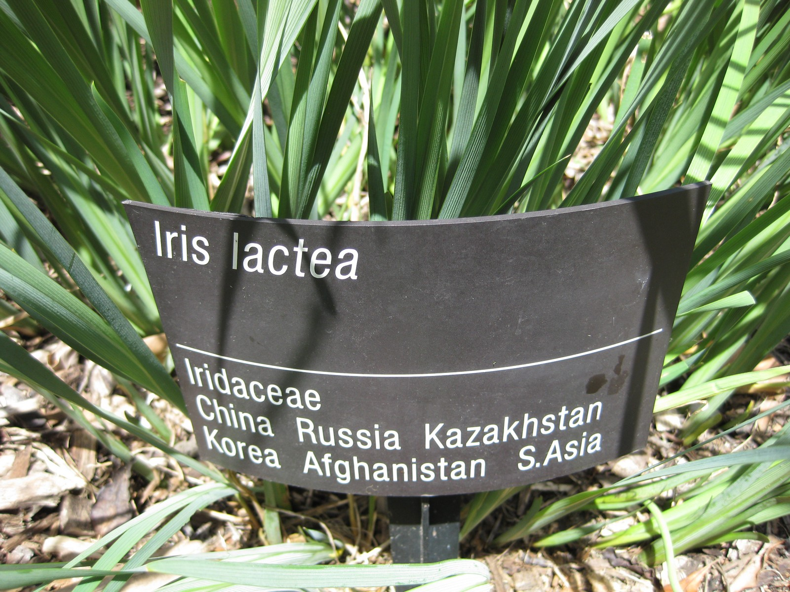 Photographed at the Royal Botanic Gardens Melbourne (Australia) in December